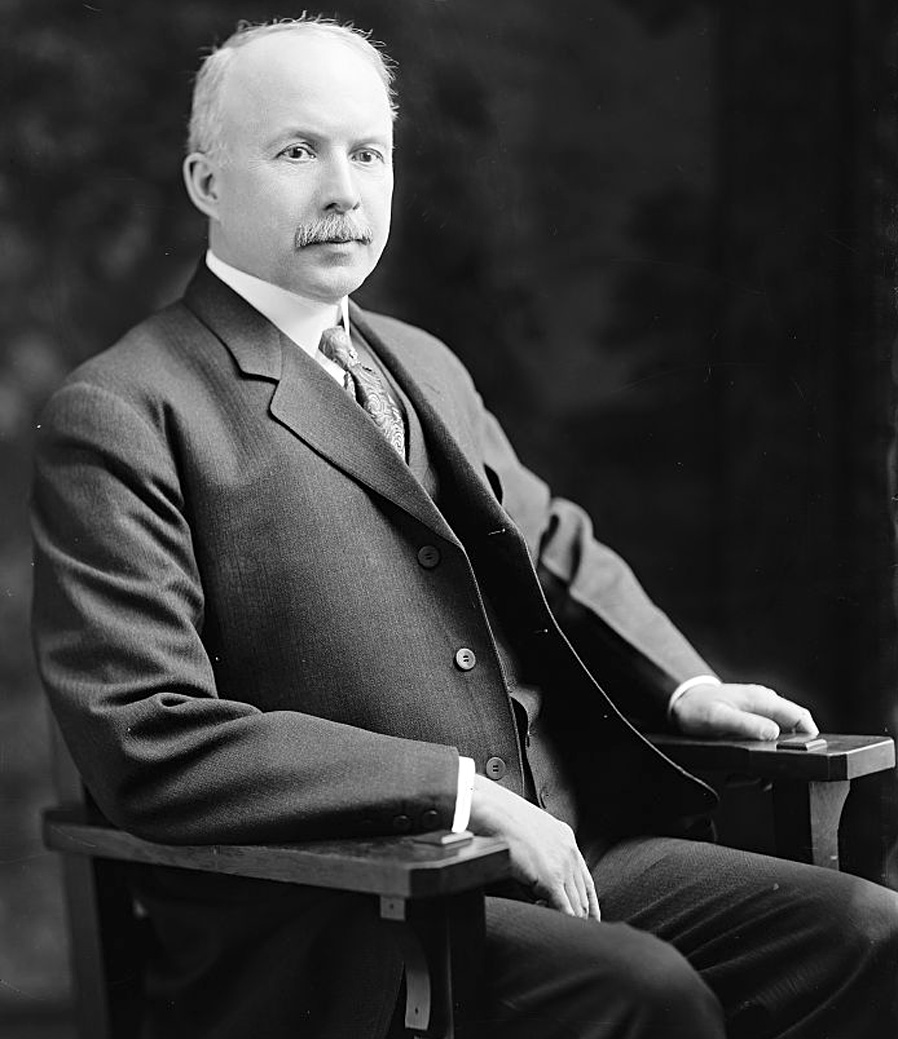 David J. Foster, US Representative from Vermont